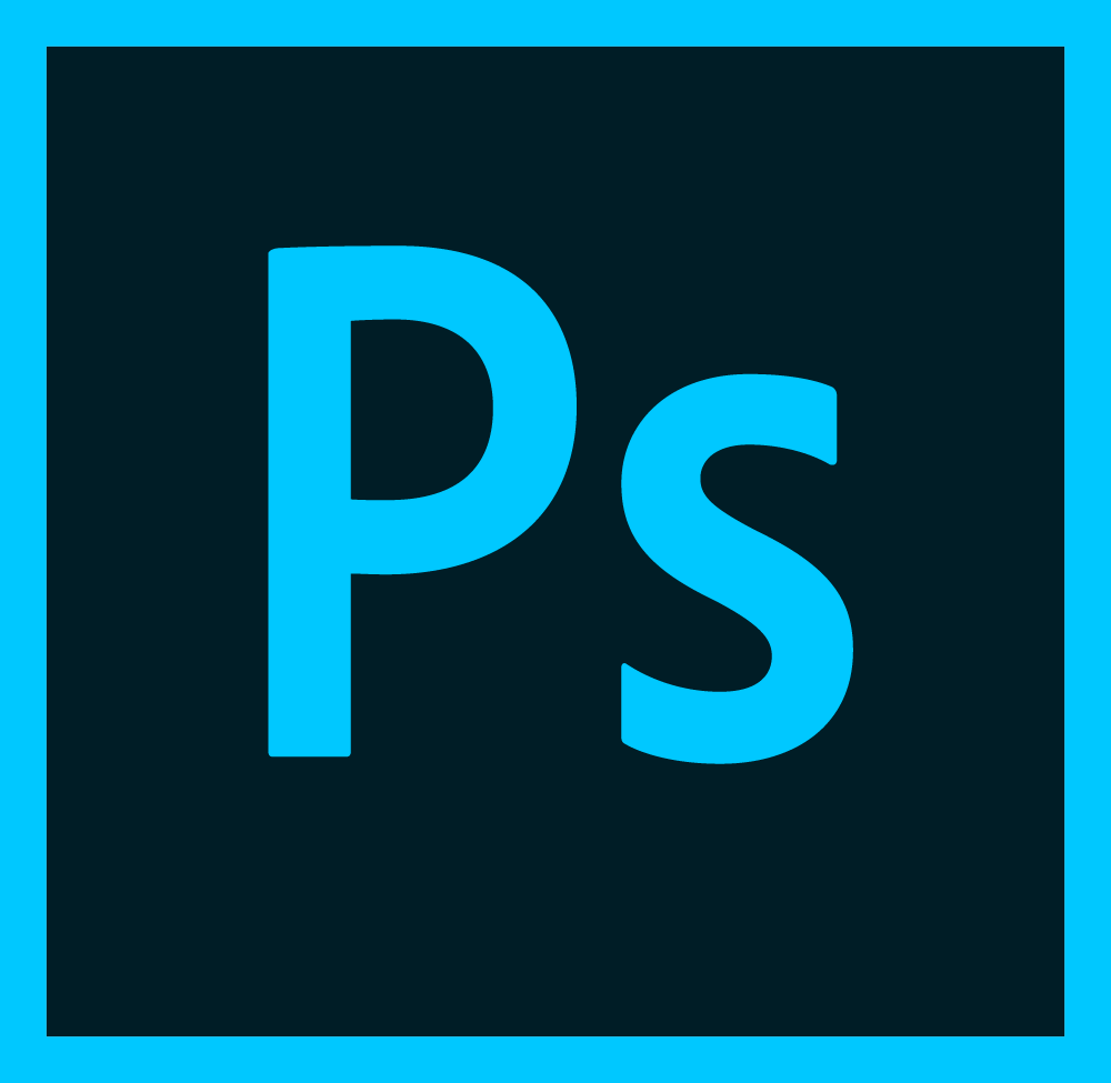 Computer icon of Adobe Photoshop CC